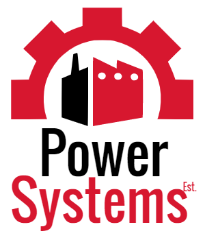 Power Systems est Logo